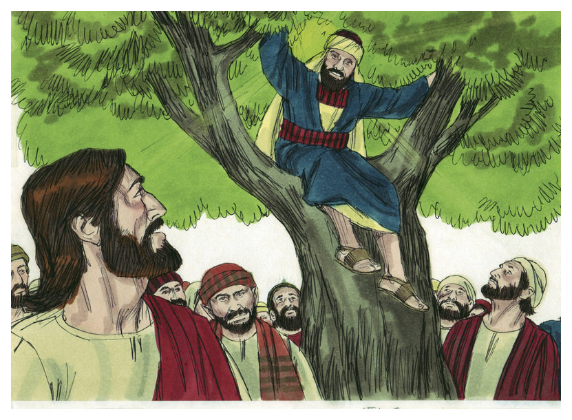 Biblical illustration of Gospel of Luke Chapter 19